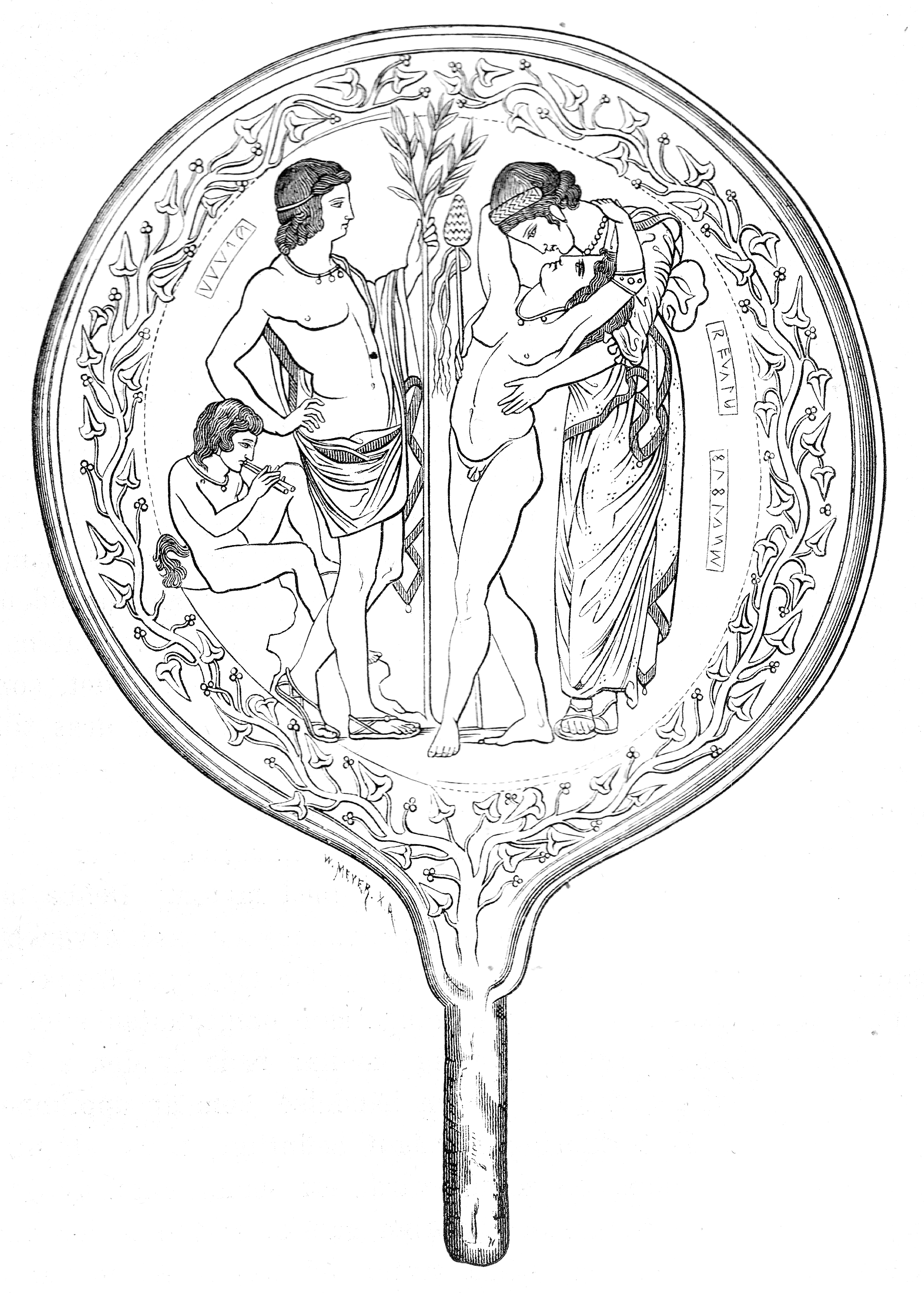 Illustration from "Illustrerad verldshistoria utgifven av E. Wallis. volume II": Etruscan mirror with Semele, her son Bacchus, Apollo and a Satyr.